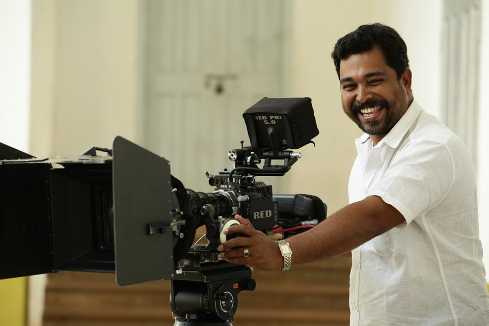 Sanjay Padiyoor